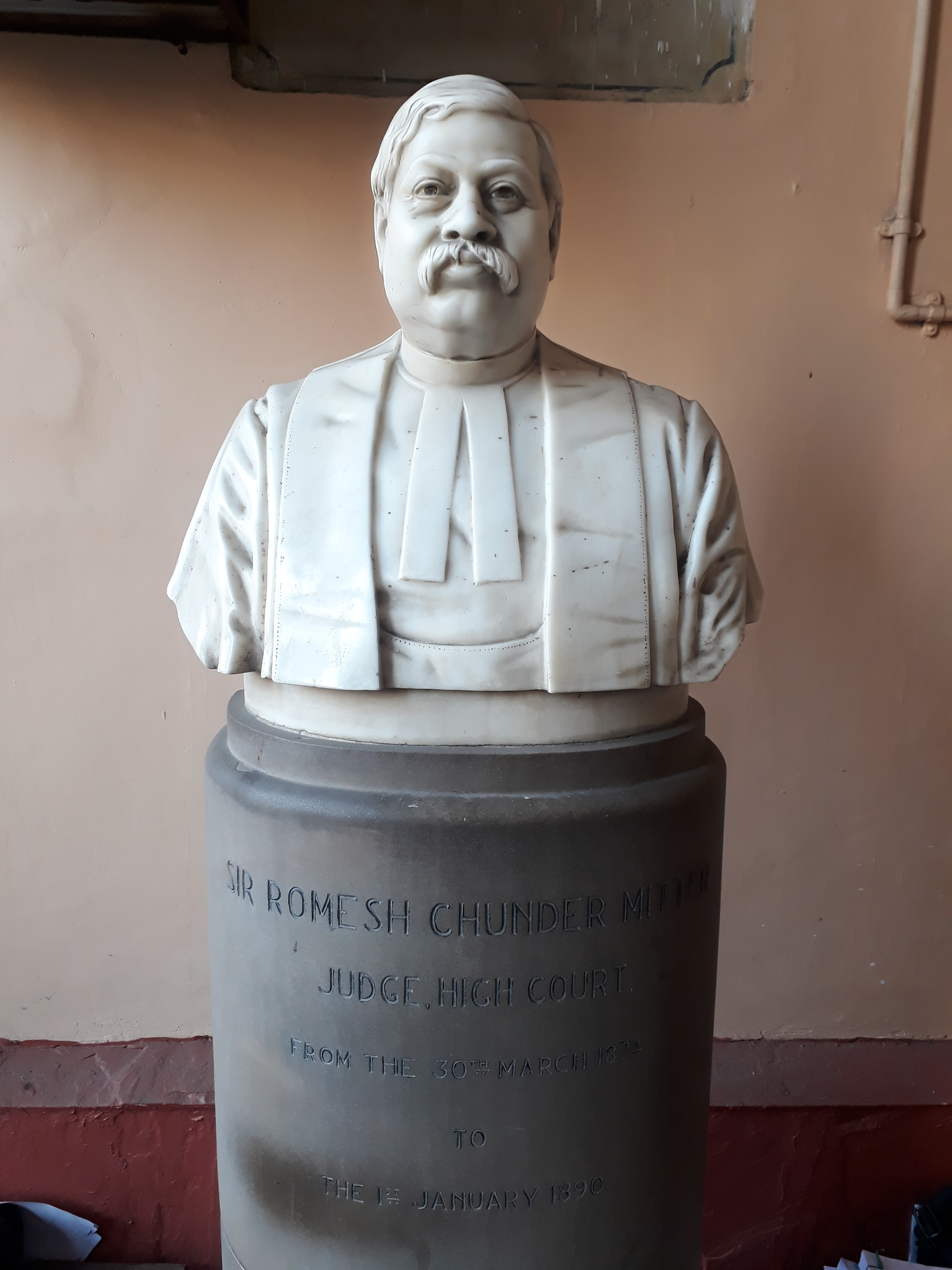 Statue of Justice Romesh Ch. Mitter in Kolkata High Court, West Bengal